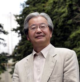 Norio Kaifu was inaugurated as Member of the Science Council on 2005.